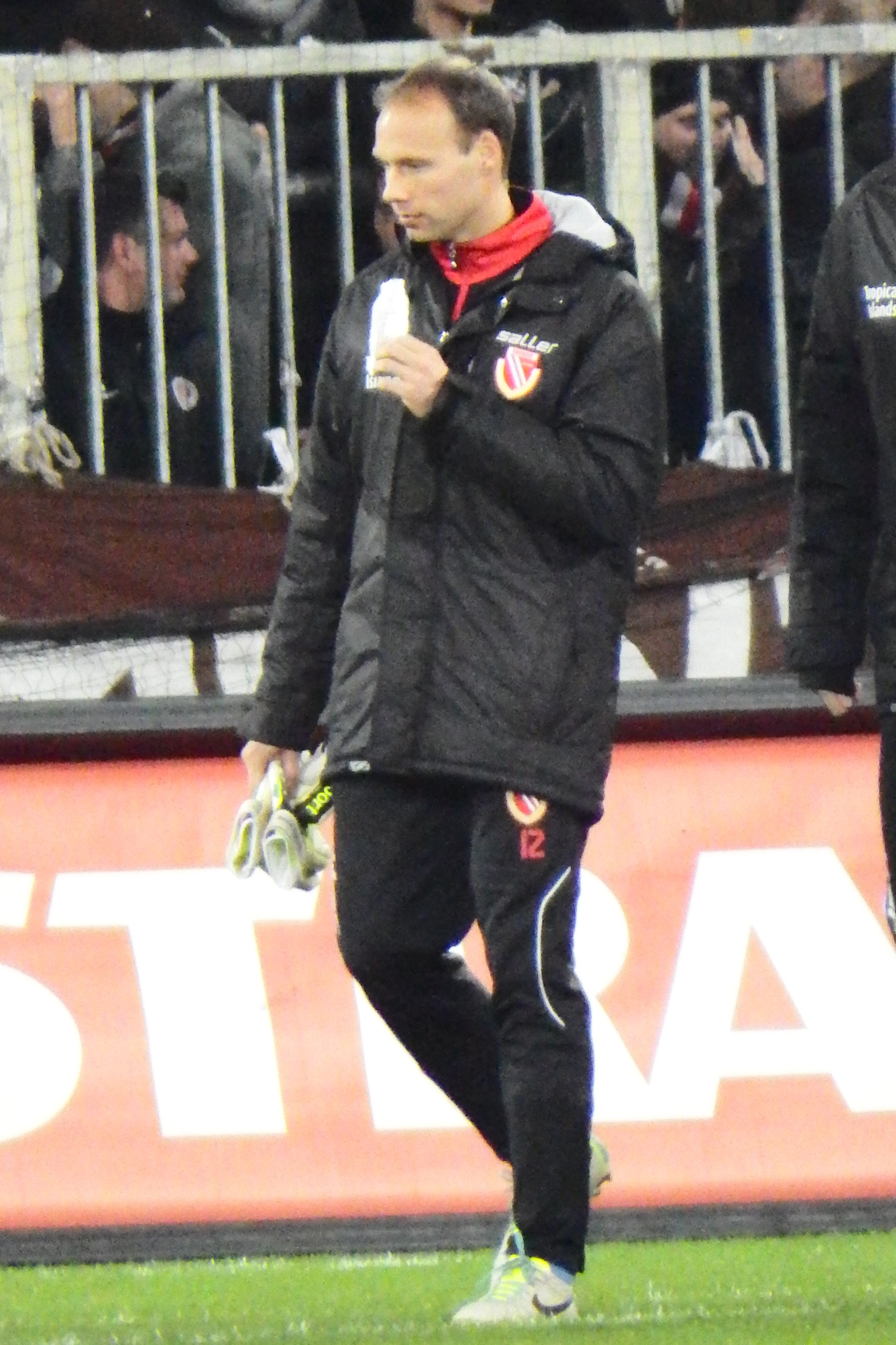 Rene Renno as Player of Energie Cottbus